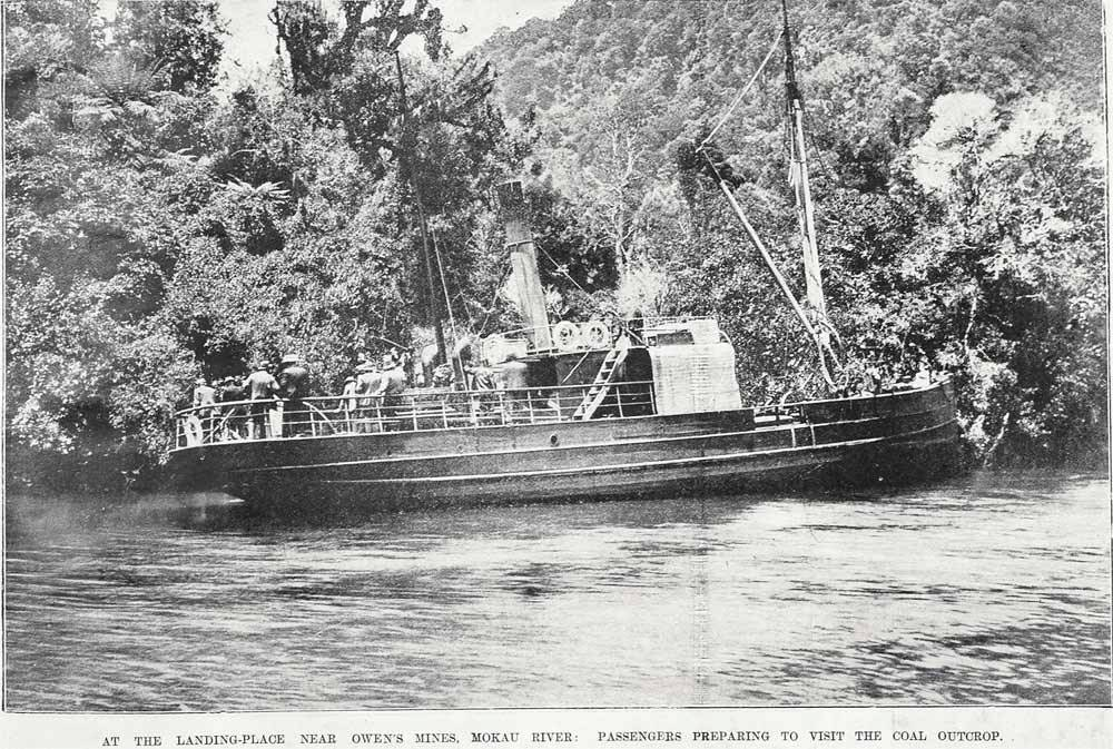 A steamer at the landing place near Owen's Mines on the Mokau River (New Zealand, North Island) with passengers preparing to visit the coal mine. Taken from the supplement to the Auckland Weekly News 28 December 1900, Sir George Grey Special Collections, Auckland Libraries, AWNS-19001228-3-2